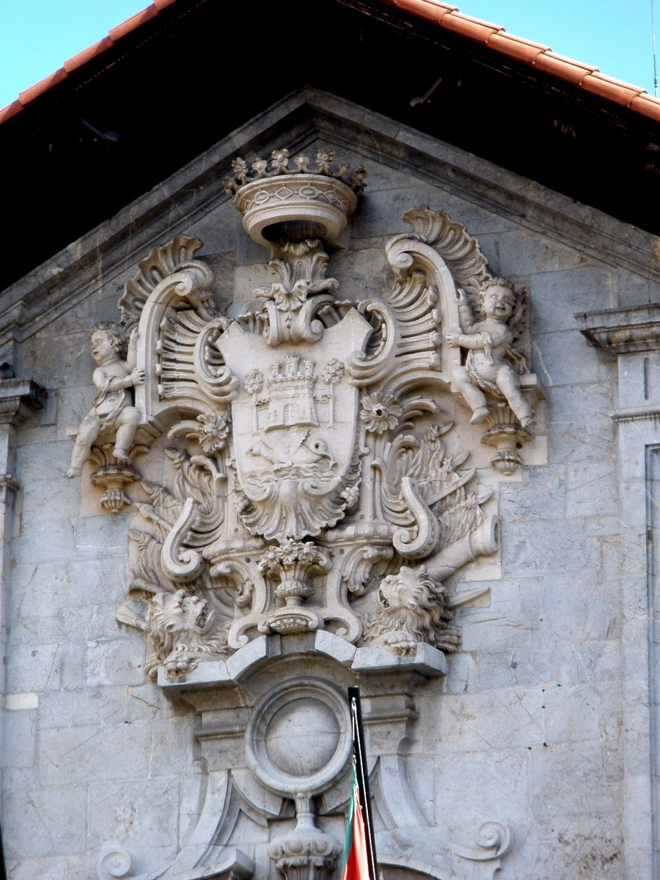 Ayuntamiento de Arrasate/Mondragón (Guipúzcoa, País Vasco, España)